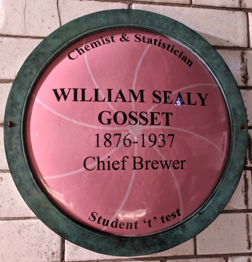 This plaque recognises the work of William Sealy Gosset, who worked for the Guinness company. The plaque is visible to visitors taking the storehouse tour at their Ireland head quarters.